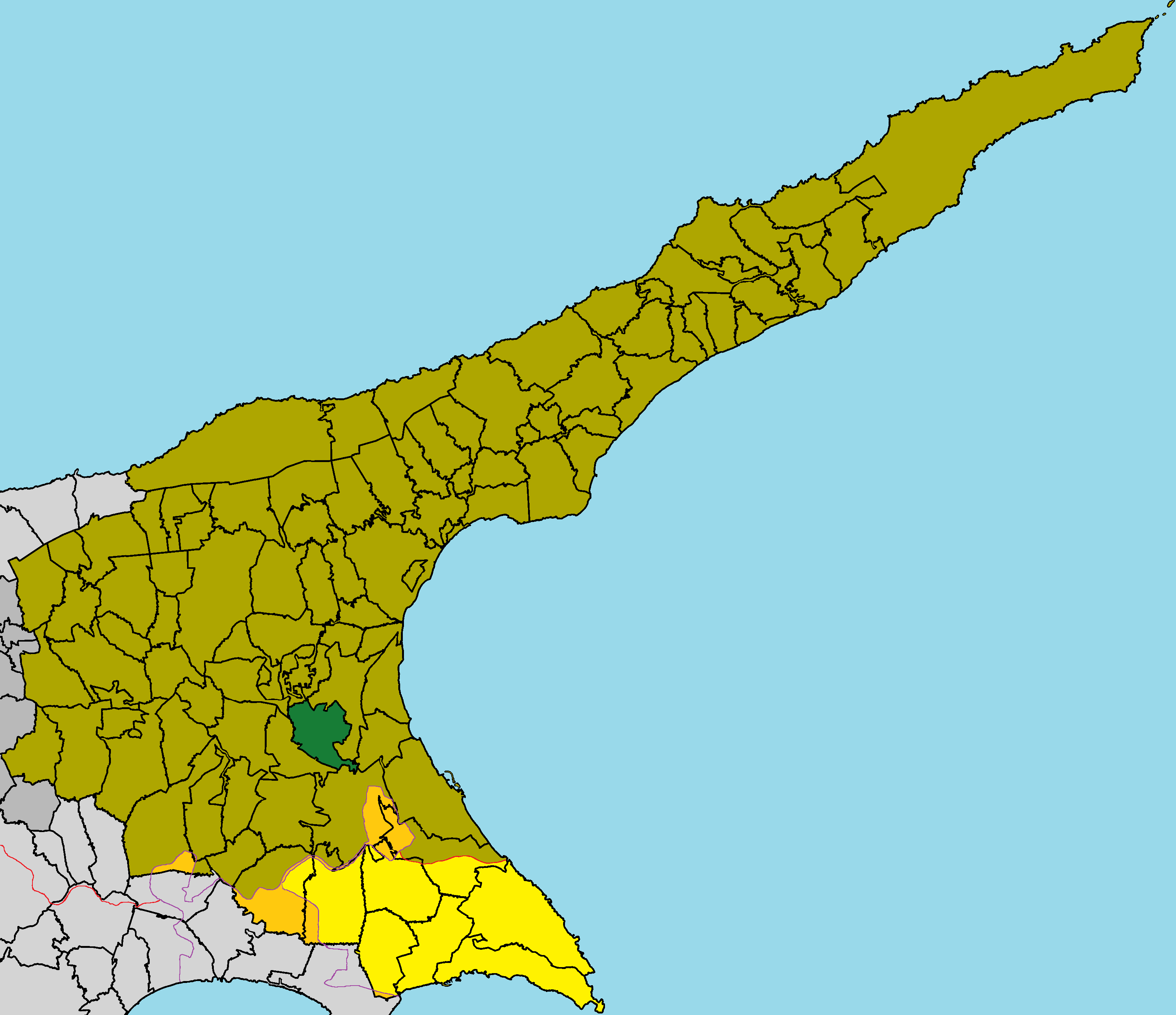 Stylloi in Famagusta District (de jure).